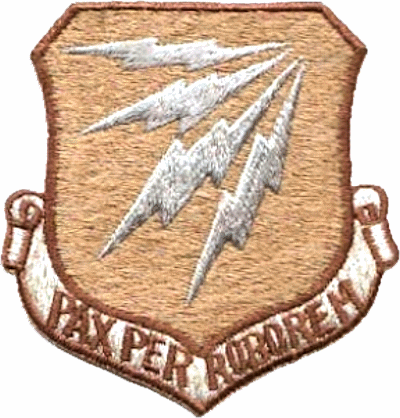 4245th Strategic Wing emblem. A copy of this emblem was downloaded from for use in my book “The Genealogy of the STRATEGIC AIR COMMAND” with the webmasters’ approval.